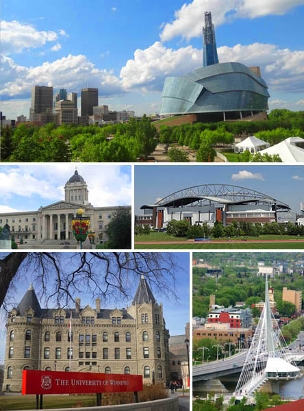 A newer montage of Winnipeg created in 2014.